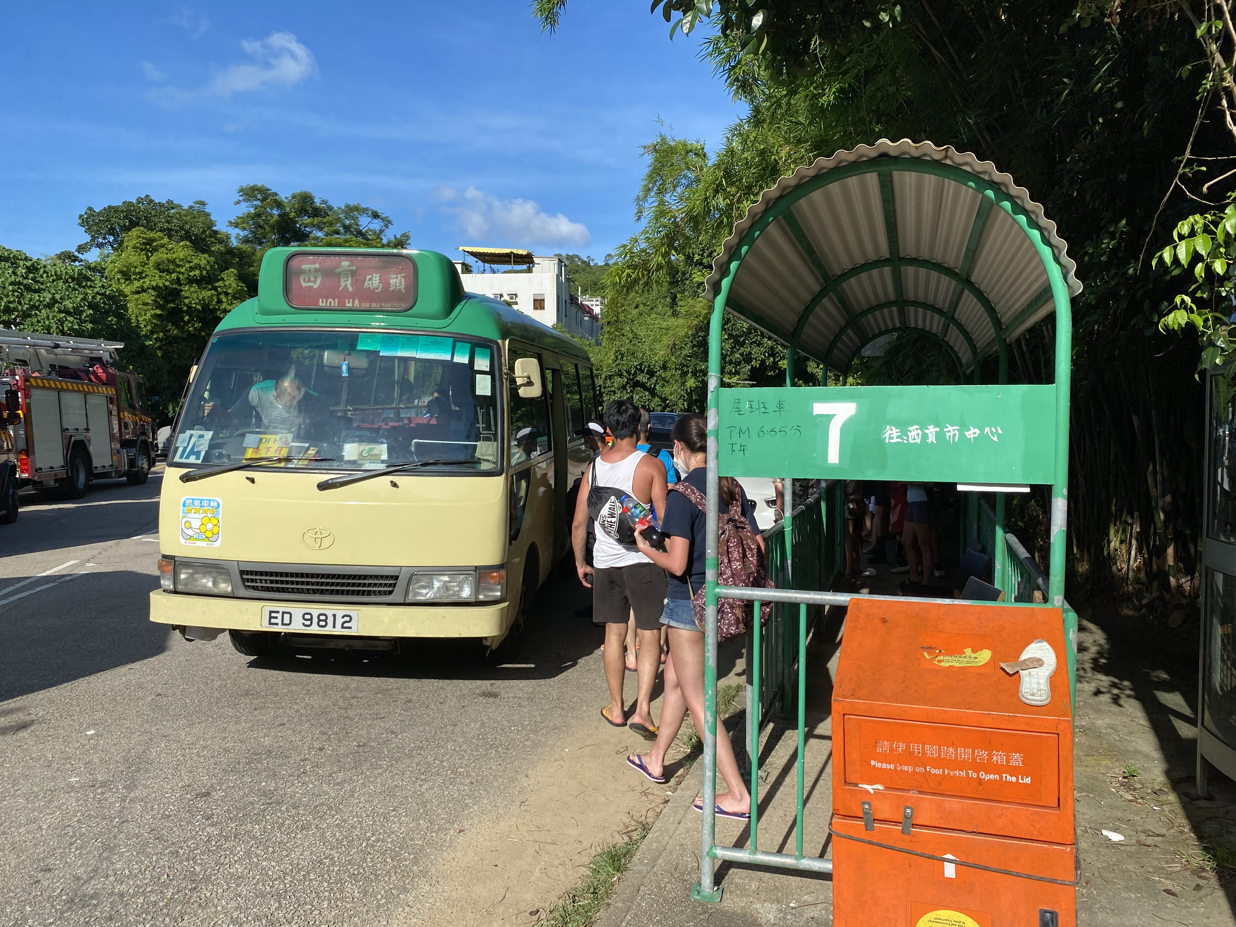 中文（香港）: This photo is taken in Hoi Ha.